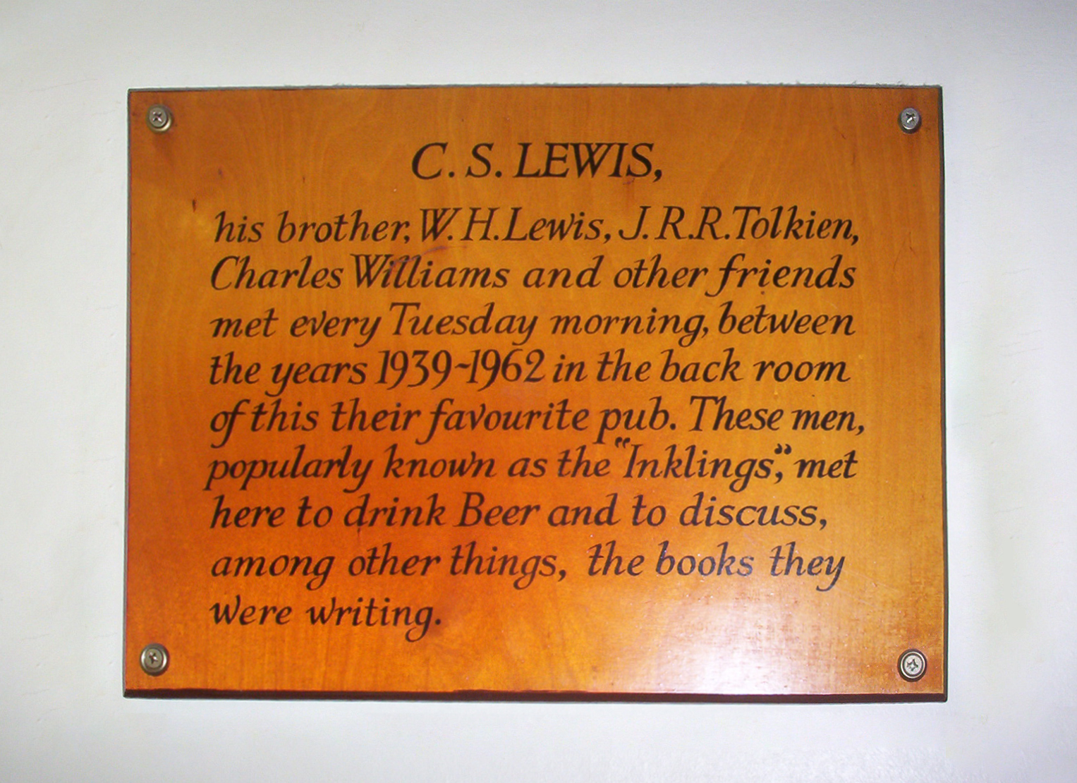 Sign at the Eagle and Child in Oxford.